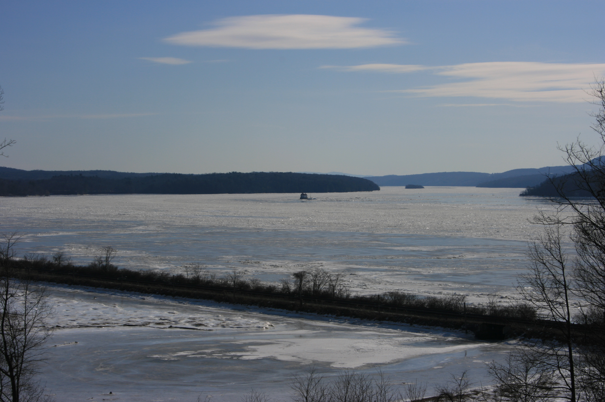 Photograph of the view of the Hudson River from Wilderstein mansion, Town of Rhinebeck, Dutchess County, New York, USA